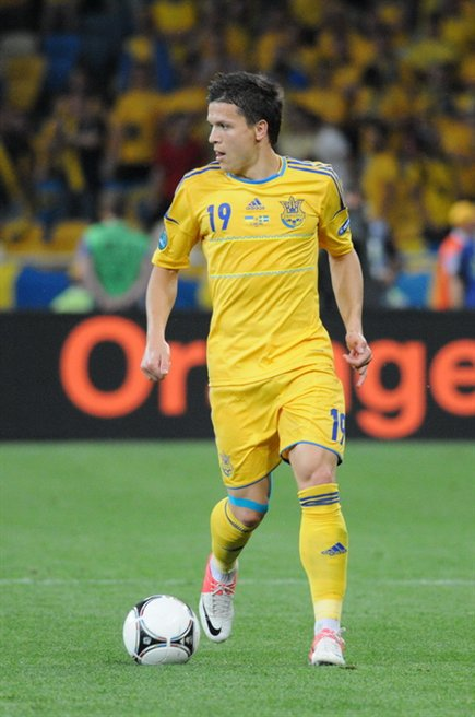 UEFA Euro 2012 match between Ukraine and Sweden that took place in Kiev. Final result was 2:1 (2xShevchenko - Ibrahimović)